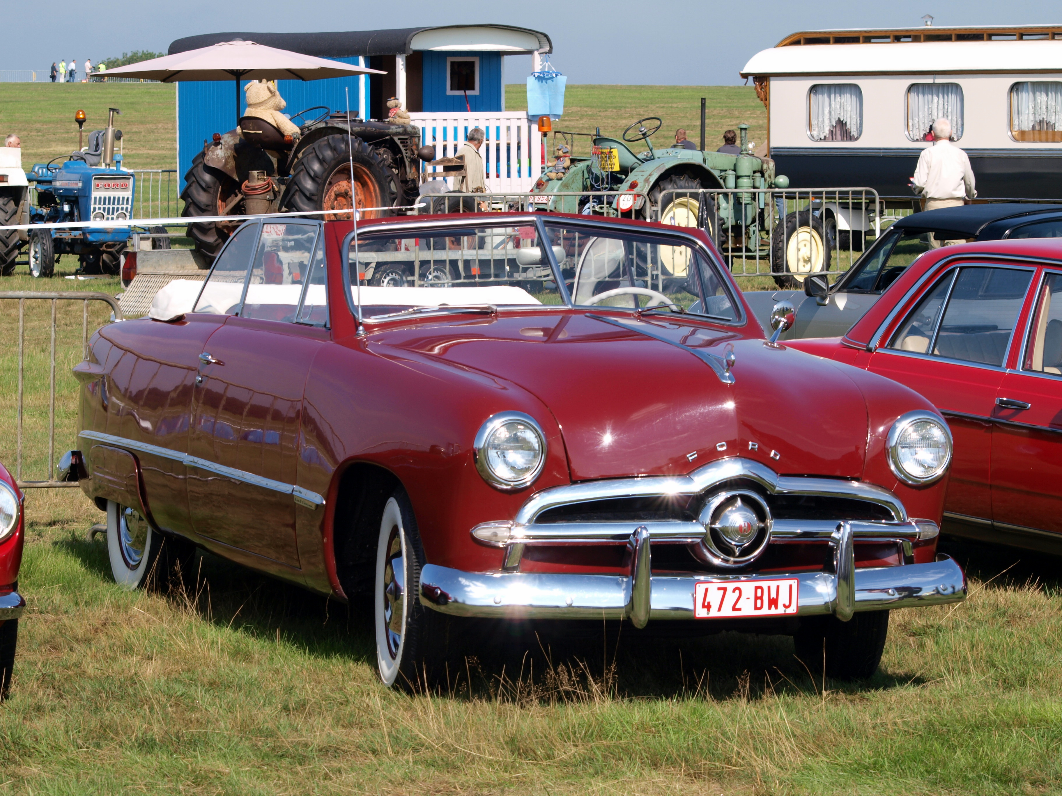 1949 Ford Convertible. Photographed at The International Oldtimer Fly and Drive In 2010, Schaffen-Diest, Belgium.